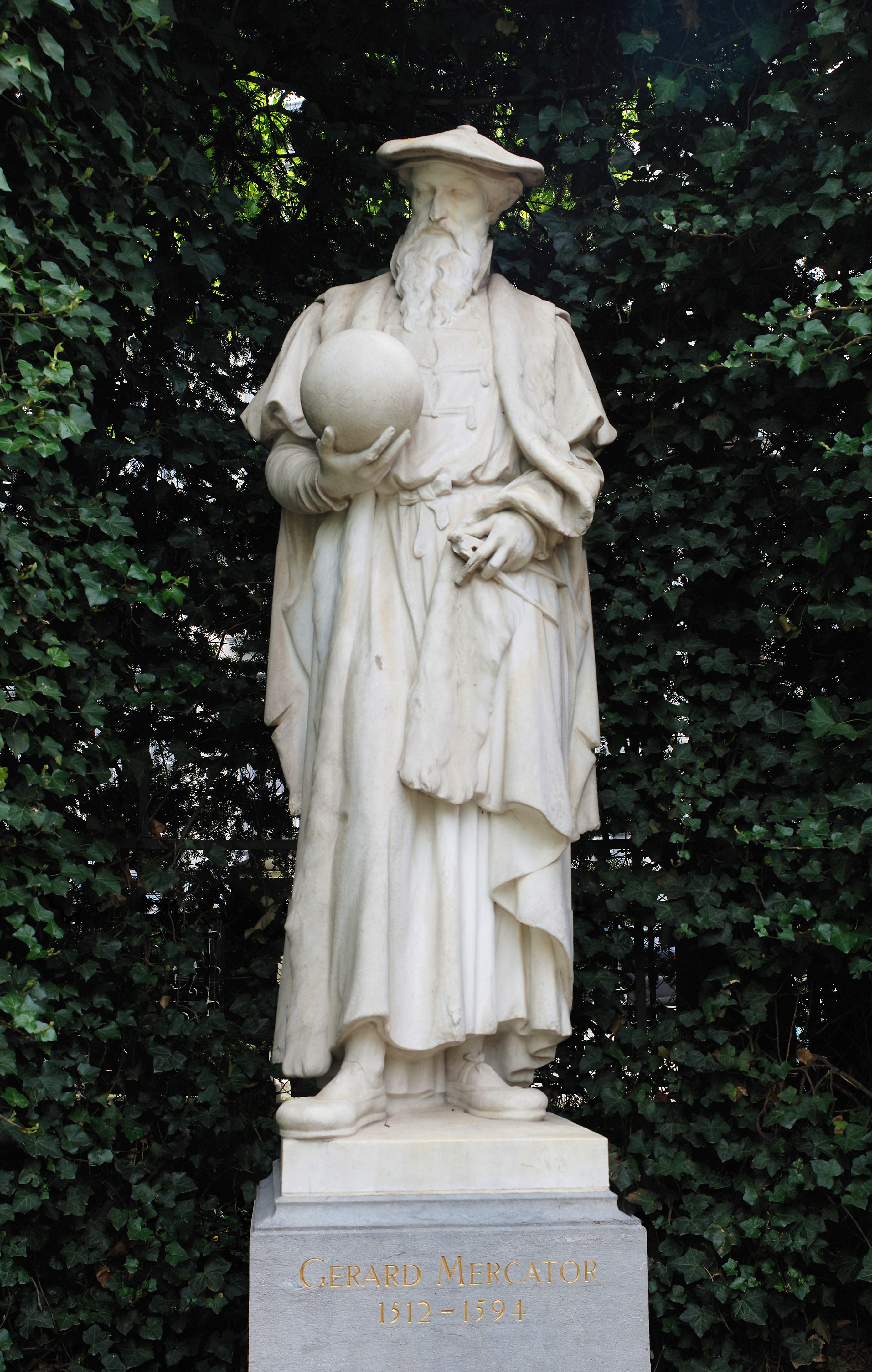 A sculpture of Gerard Mercator. Jardin du Petit Sablon, Brussels